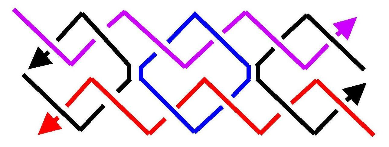 Figure 1. Basic DNA Structures for Self-Assembly (C) a DNA DX